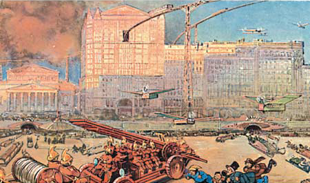 Moscow in XXIII Century. Theatral Square and TcsUM. . Russian Empire postcard, Einem Factory, 1914, Moscow.